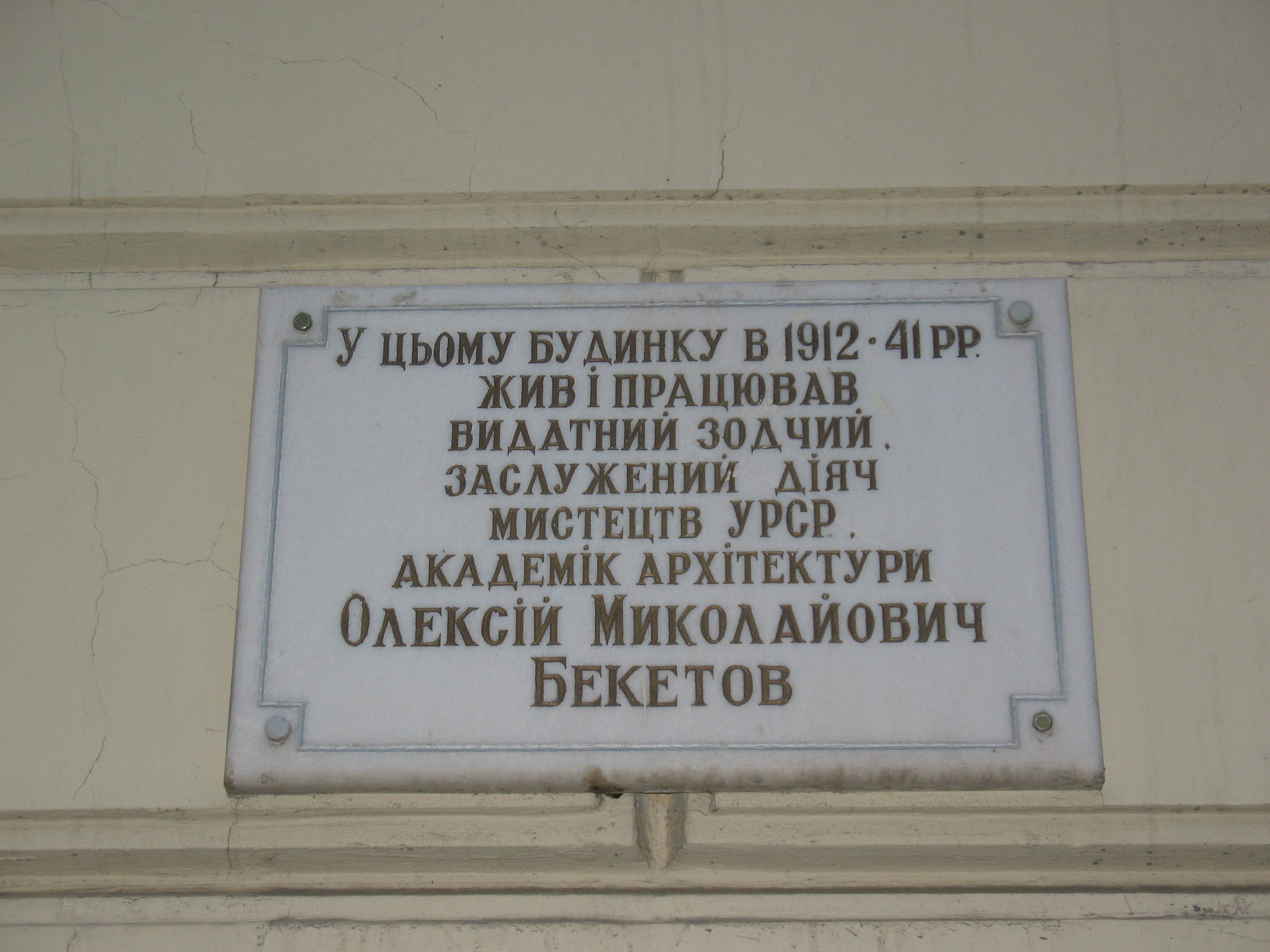 A.N.Beketov tablet, Kharkov, Darvin st. 37